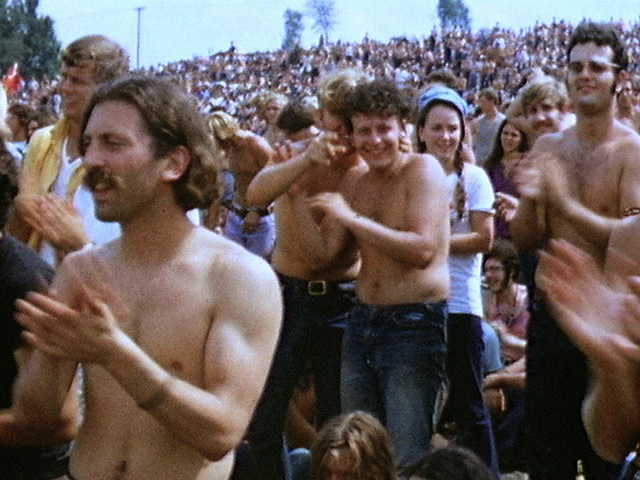 Cropped version of File:Woodstock redmond crowd.JPG